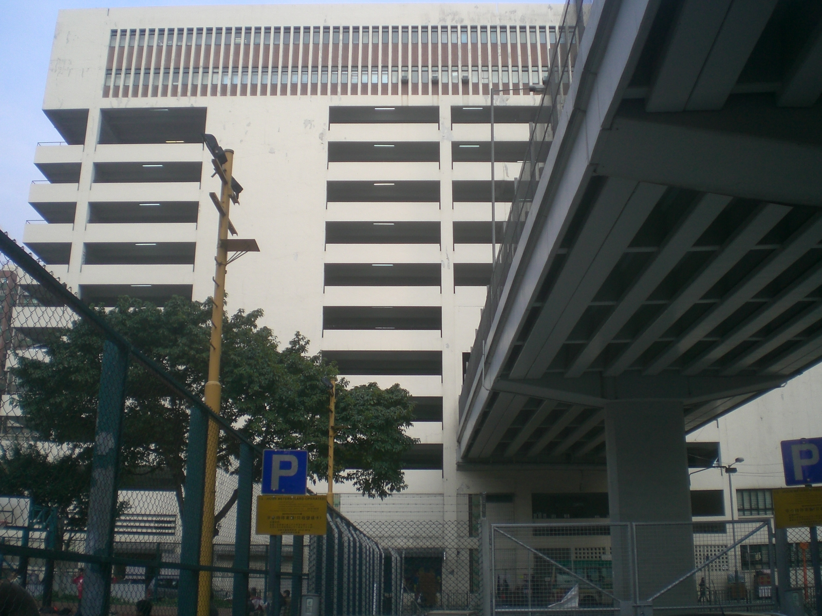 油麻地